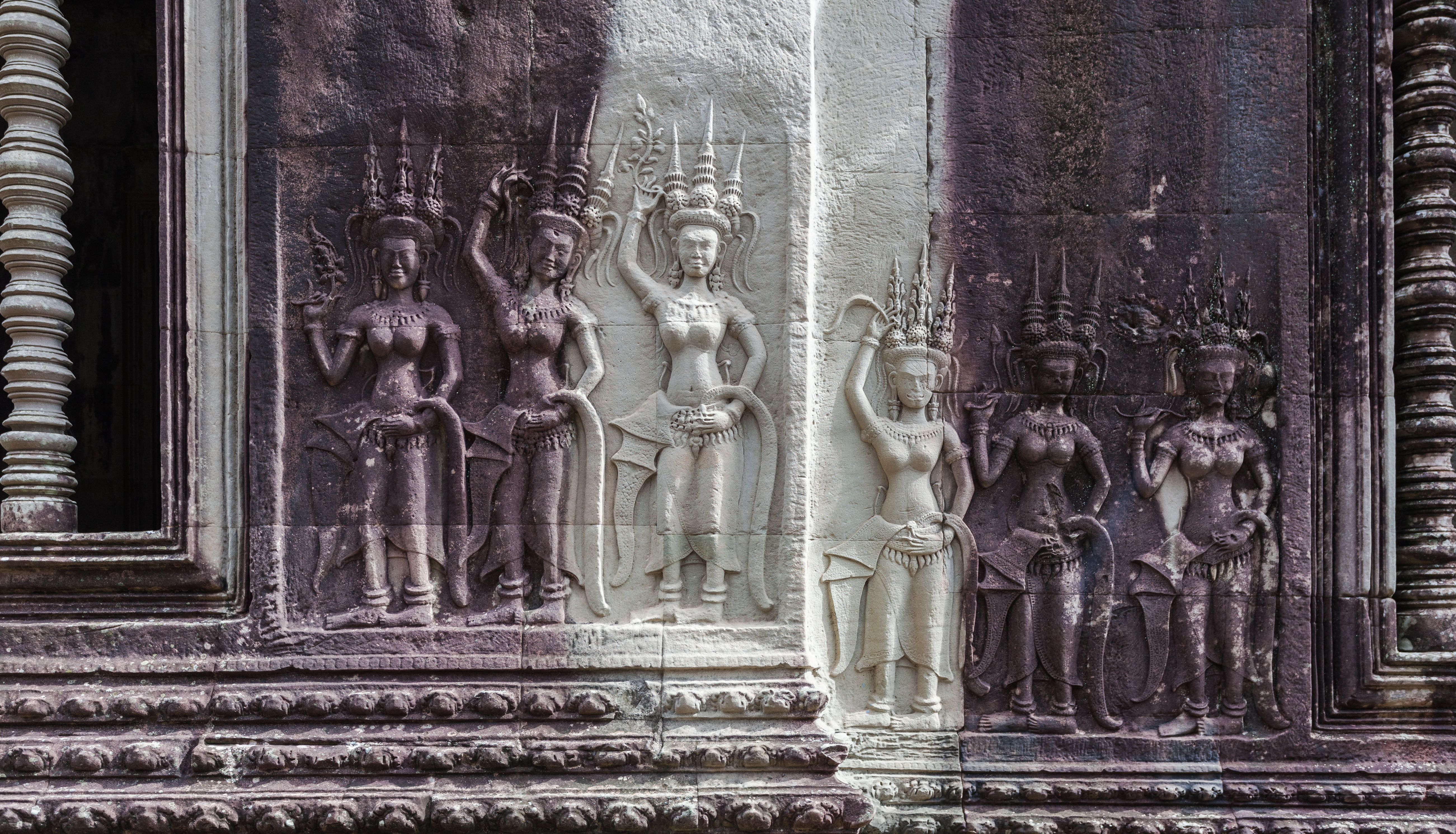 Angkor Wat, Cambodia